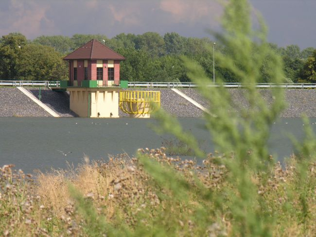 widok